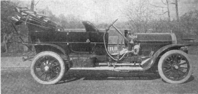 Image of the Frontenac automobile comes from an advertisement in the Cycle and Automobile Trade Journal Vol XIII, No 7.